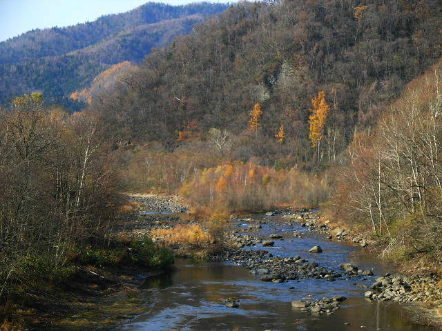 Toyohira River, Sapporo, Japan